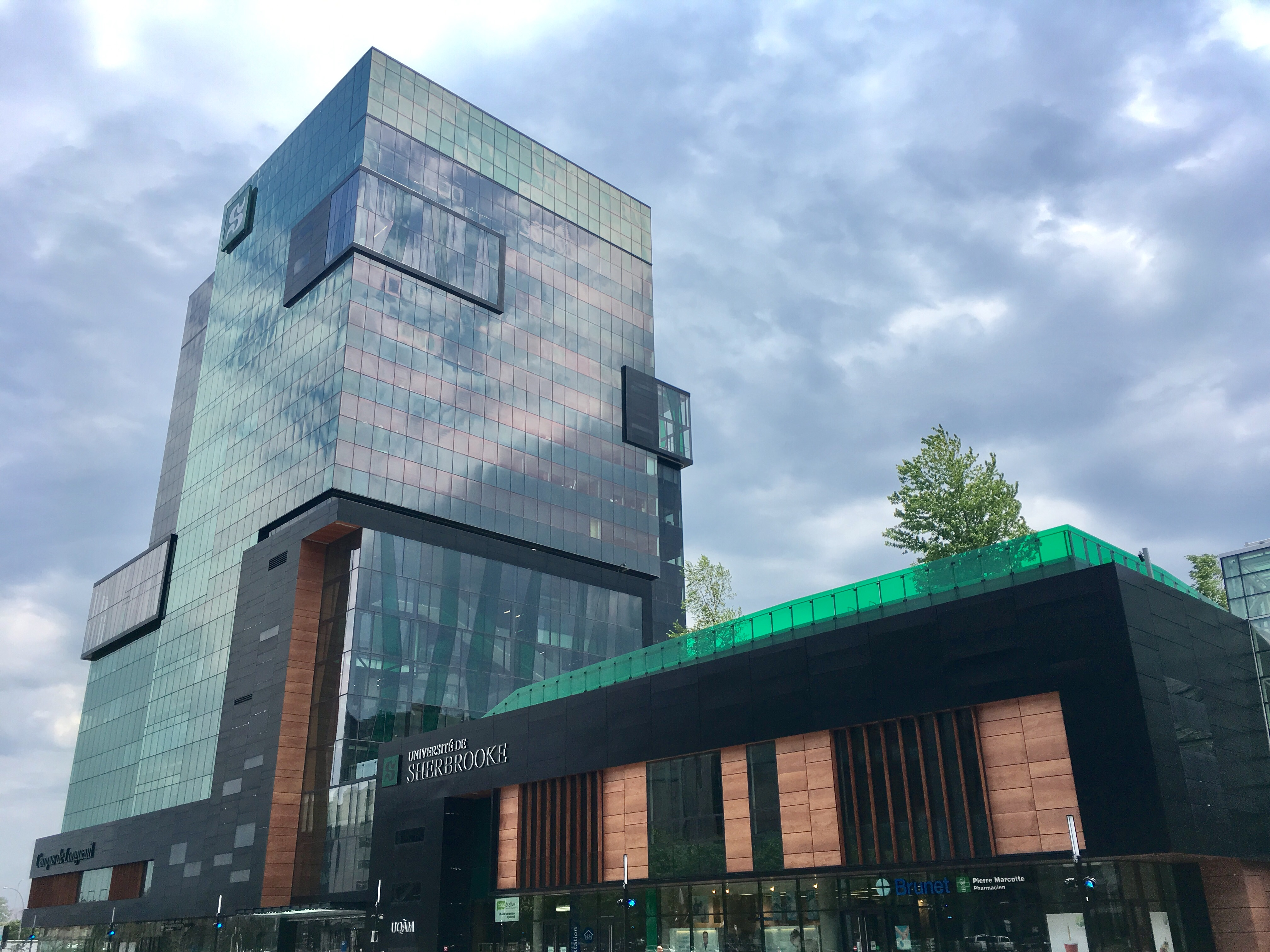 UdeS building at Longueuil Metro Station.